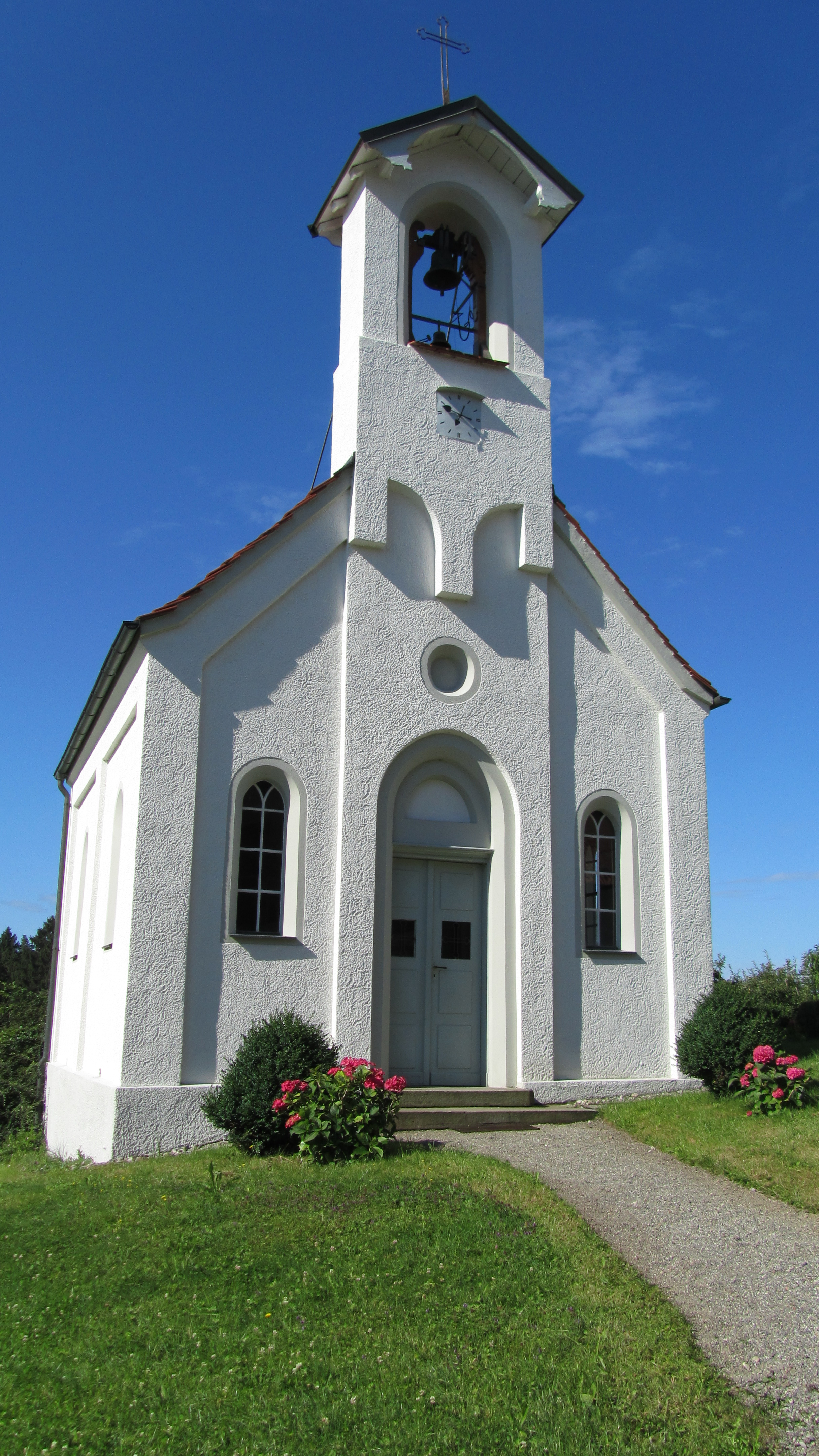 St. Michaels Kapelle